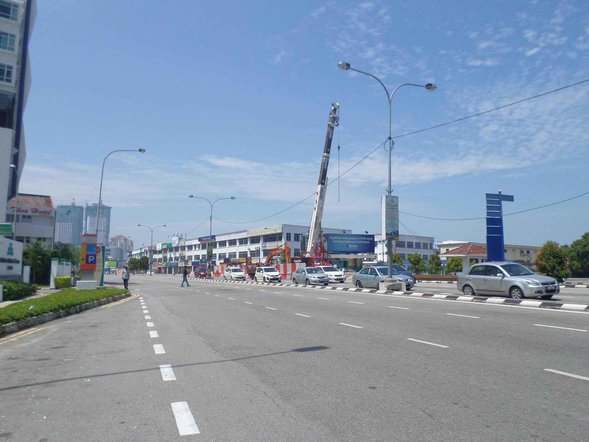 Syed Abdullah Aziz Street, Malacca City, Malacca, MalaysiaBahasa Melayu: Jalan Syed Abdullah Aziz, Bandaraya Melaka, Melaka, Malaysia